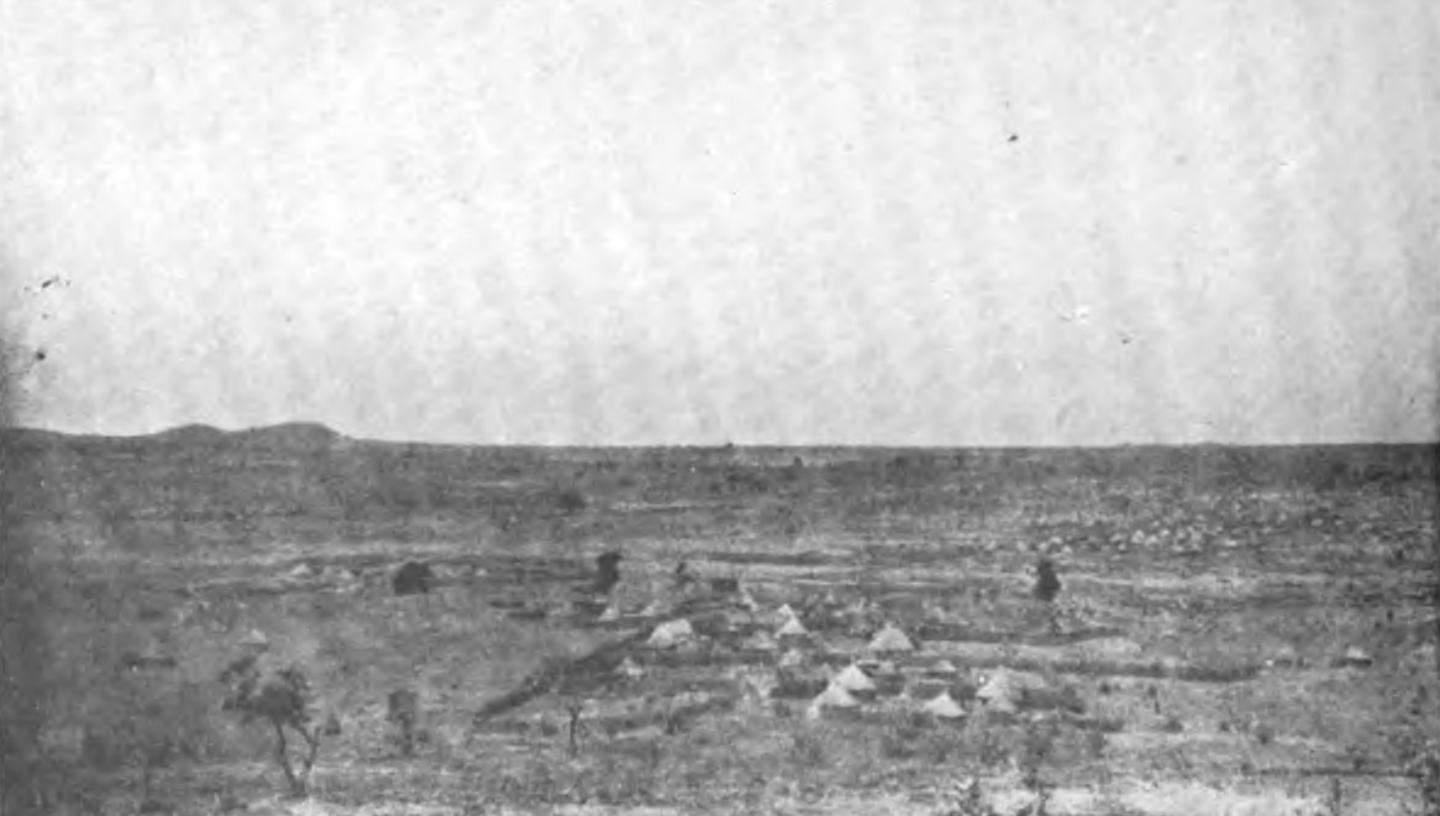 Battlefield of Gallabat, where Emperor Yohannes was killed.